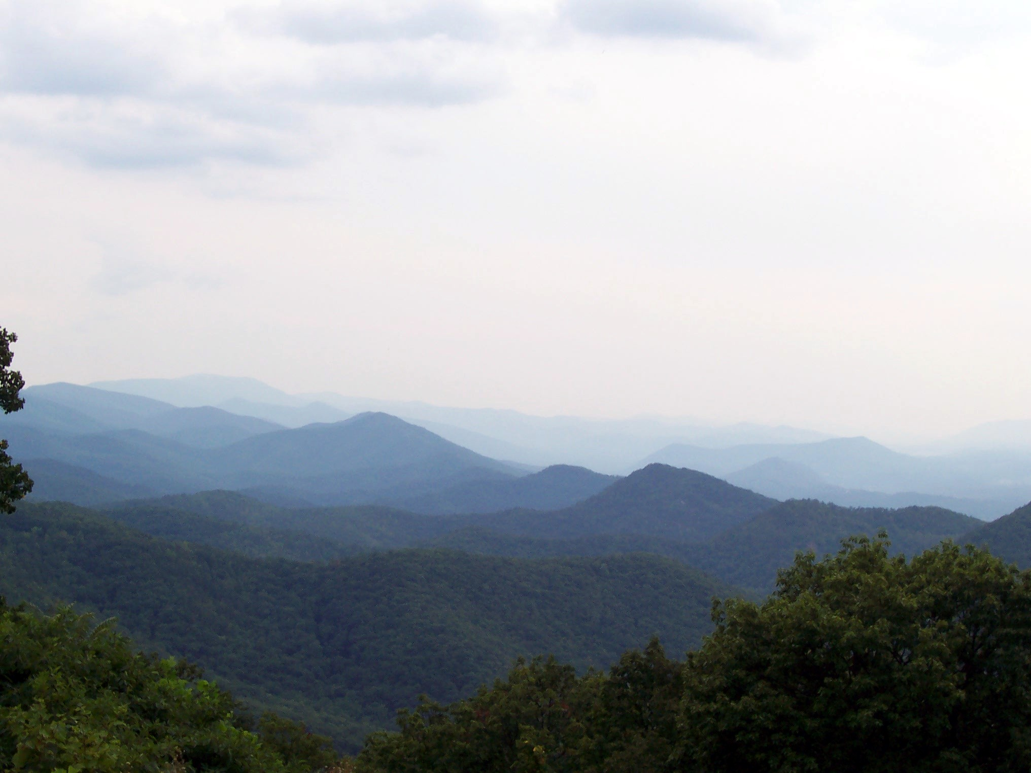 Chimney Rock Mountain is located in Virginia near Nelson County. The elevation reported on a sign posted at this scenic overlook off the Blue Ridge Parkway was 2485 feet above sea level.